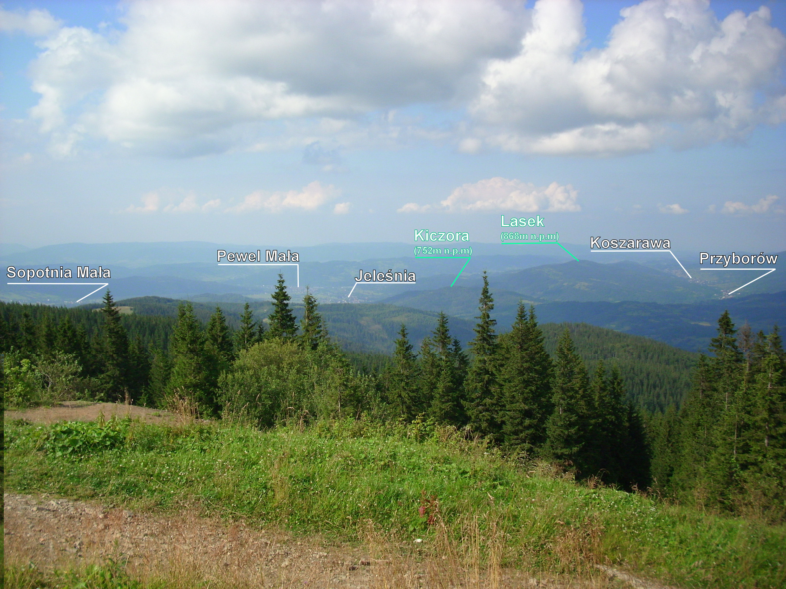 View from the "Hall Miziowa" in a northeasterly direction